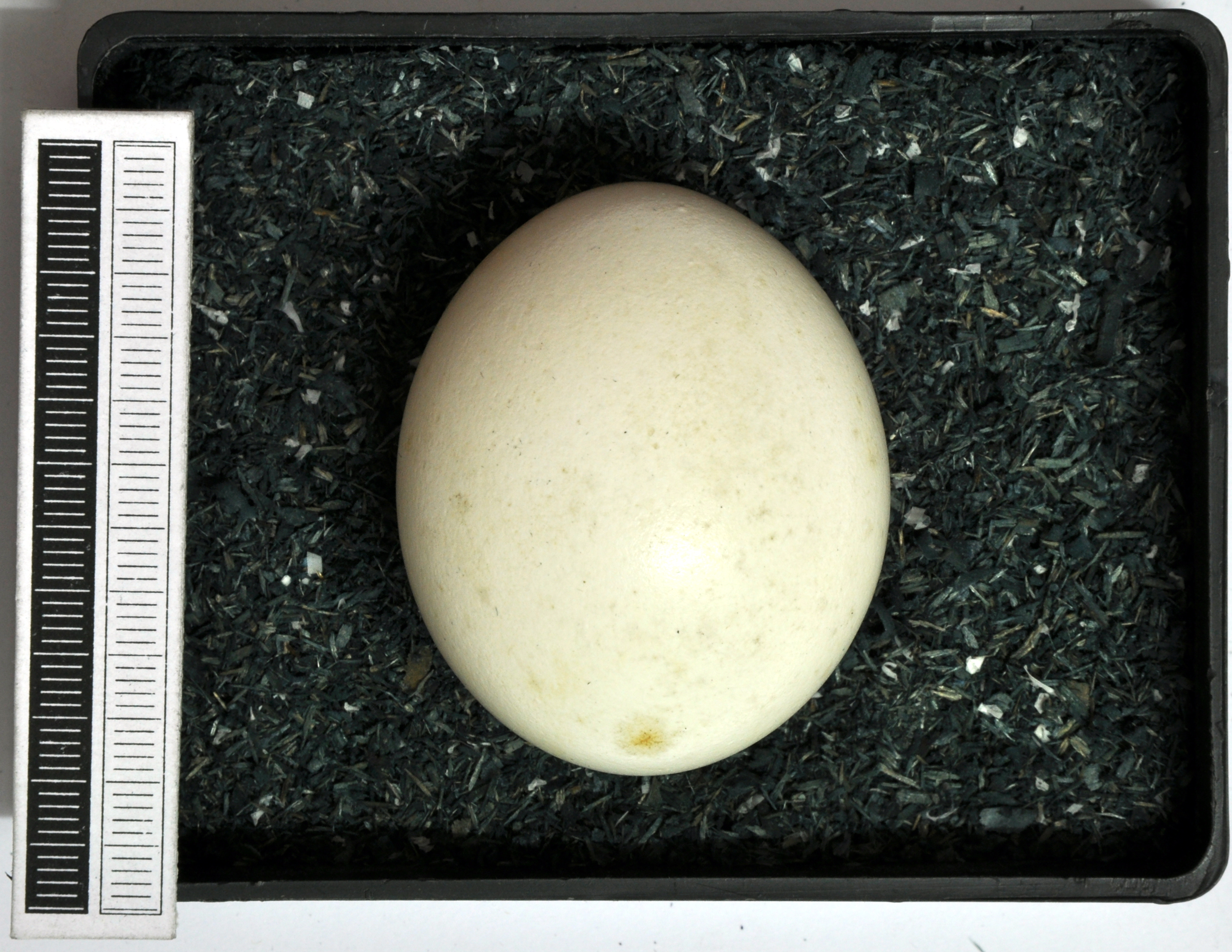 Tawny owl Strix aluco , egg, Coll. Museum Wiesbaden, leg. W. Abelmann